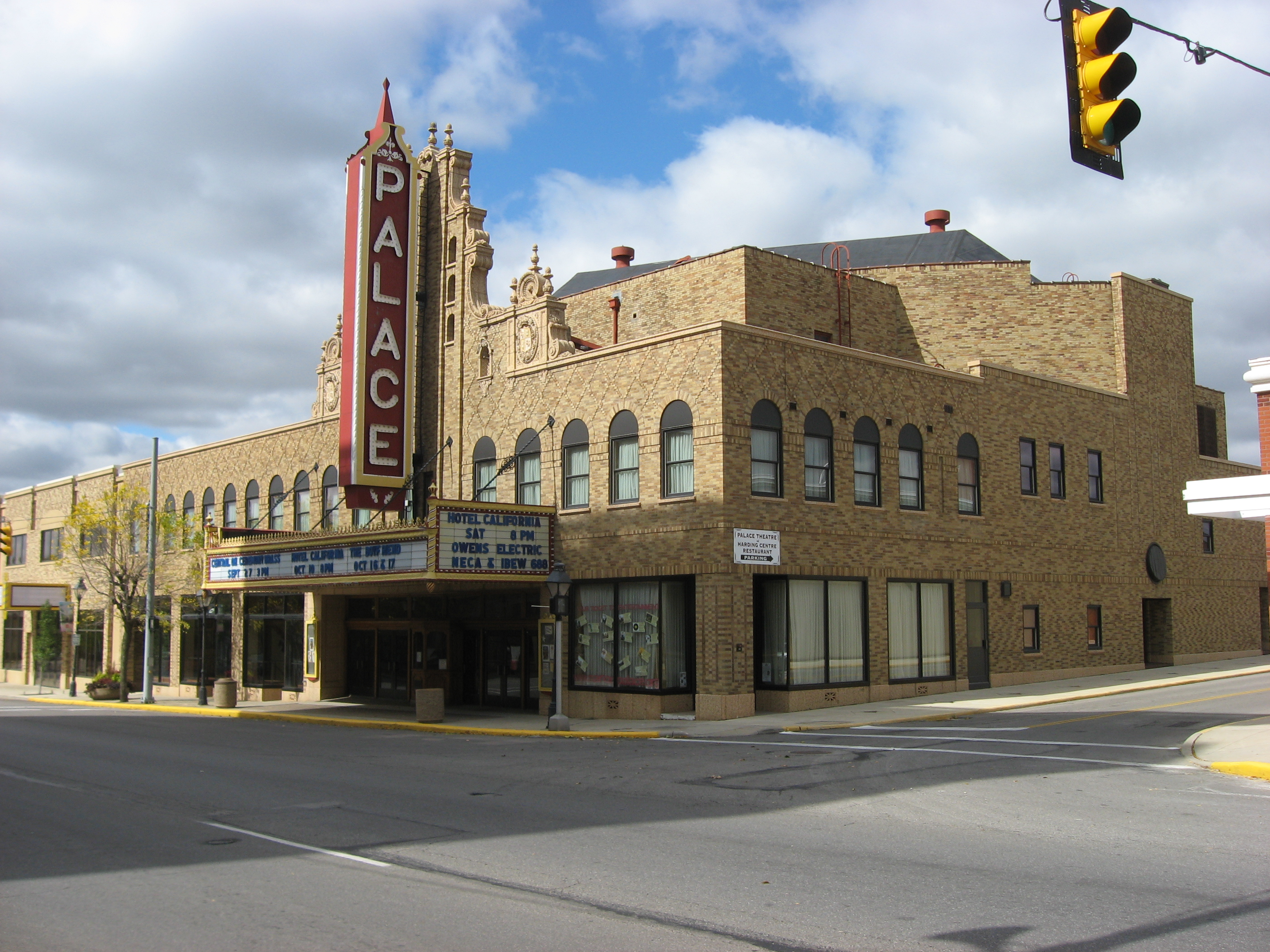 Front of the Palace Theater, located at 272 W. Center Street (State Routes 95/309) in downtown Marion, Ohio, United States. Built in 1928, the theater is listed on the National Register of Historic Places.